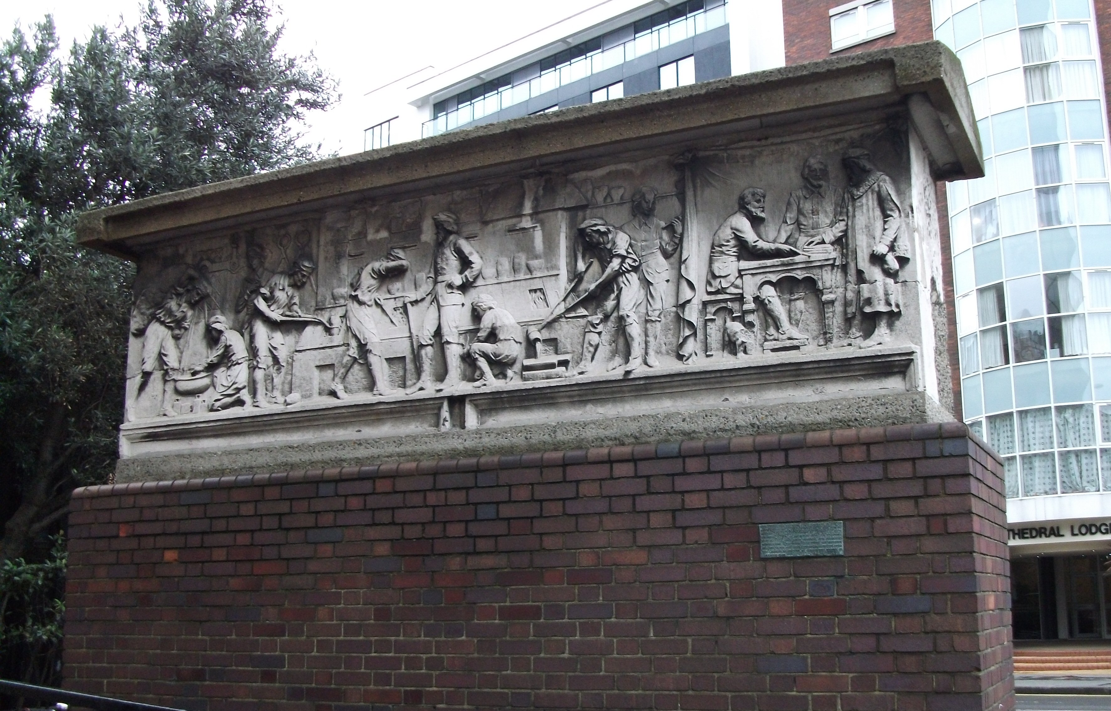 Part of a freize rescued from the building of W Bryer and Sons, goldsmiths, which formerly stood at 53 and 54 Barbican, London. The building was one of the few in the area to survive wartime bombing in 1940 but was demolished to make way for the barbican redevelopment. This section was retained as a monument.